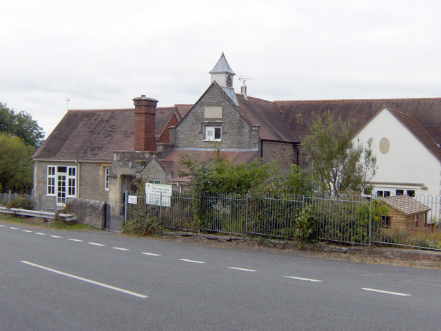 Clifford Primary School Clifford Primary School near Hay on Wye.